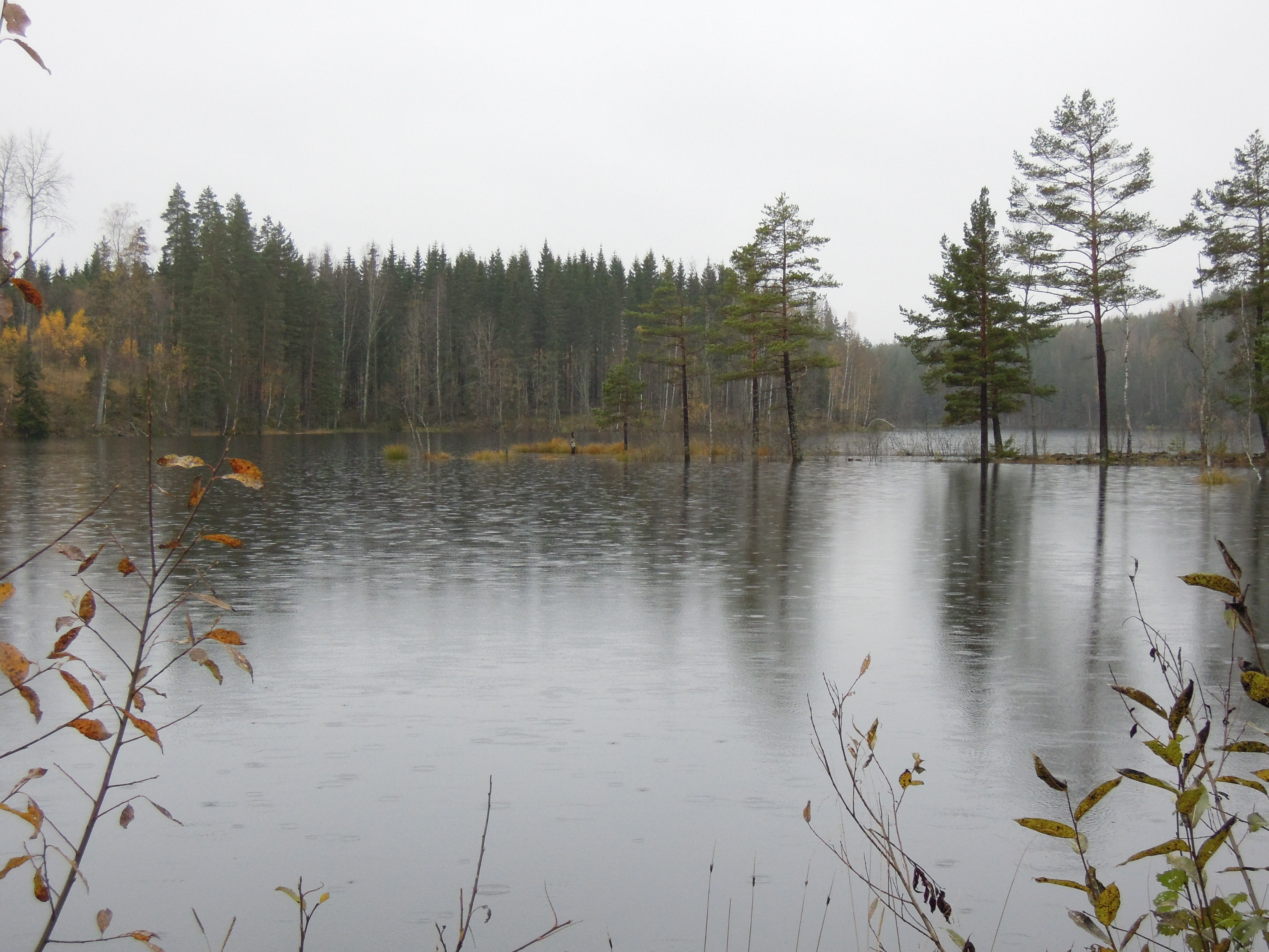 Lake Stora Kedjen at the remnants from the ironworks ”Trummelsbergs bruk” in Fagersta Municipality in Västmanland, Sweden. Picture dated October 2012.